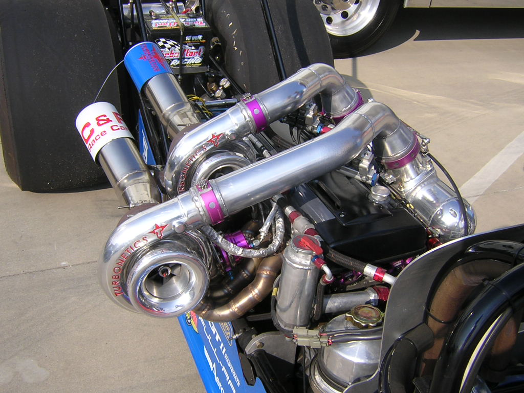 A pair of turbochargers mounted to a Toyota Inline 6 in a dragster.